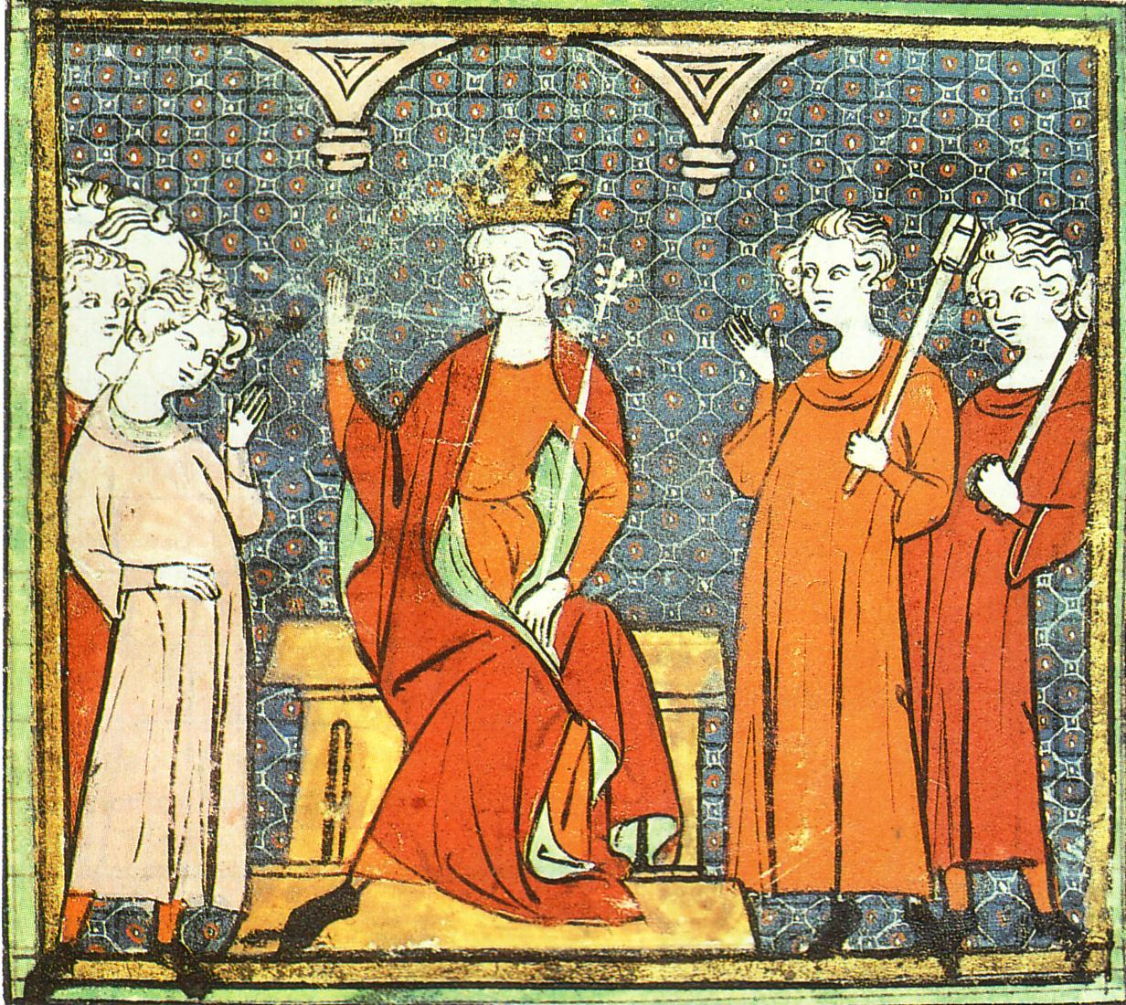 f.14v Childeric II (c.653-73), Merovingian King of Austrasia, from the Grandes Chroniques de France, 1375-79 (vellum). Bibliotheque Municipale, Castres, France.